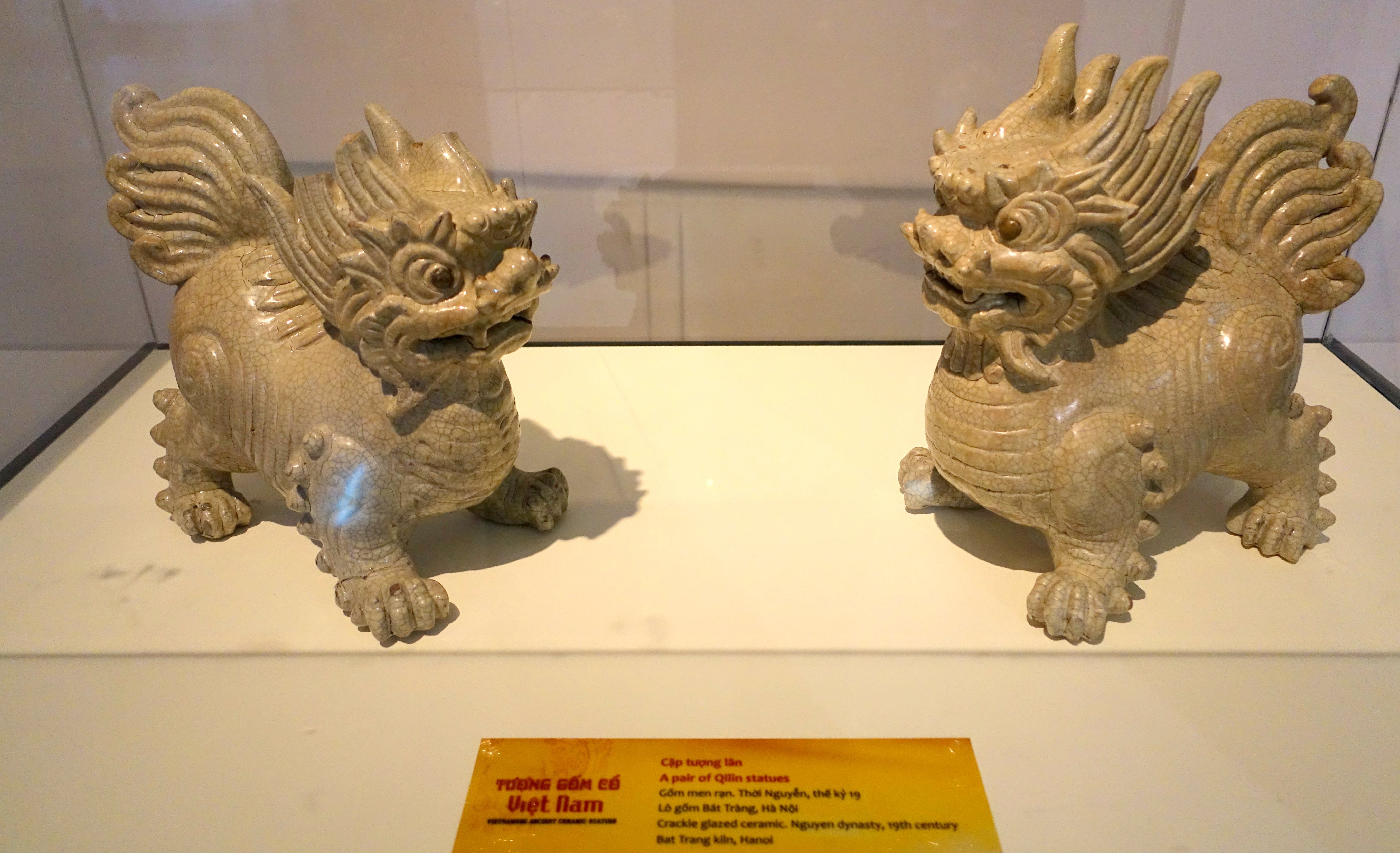 Exhibit in the National Museum of Vietnamese History, Hanoi, Vietnam. This artwork is old enough so that it is in the public domain.